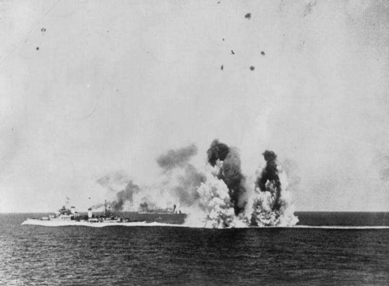 OPERATION PEDESTAL, AUGUST 1942, 12 August: Evening Air and Submarine attacks: HMS KENYA under air attack on her return voyage to Gibraltar.